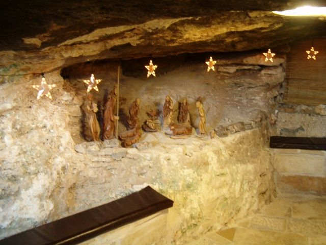 Inside the Cave near Bethlehem, Palestine